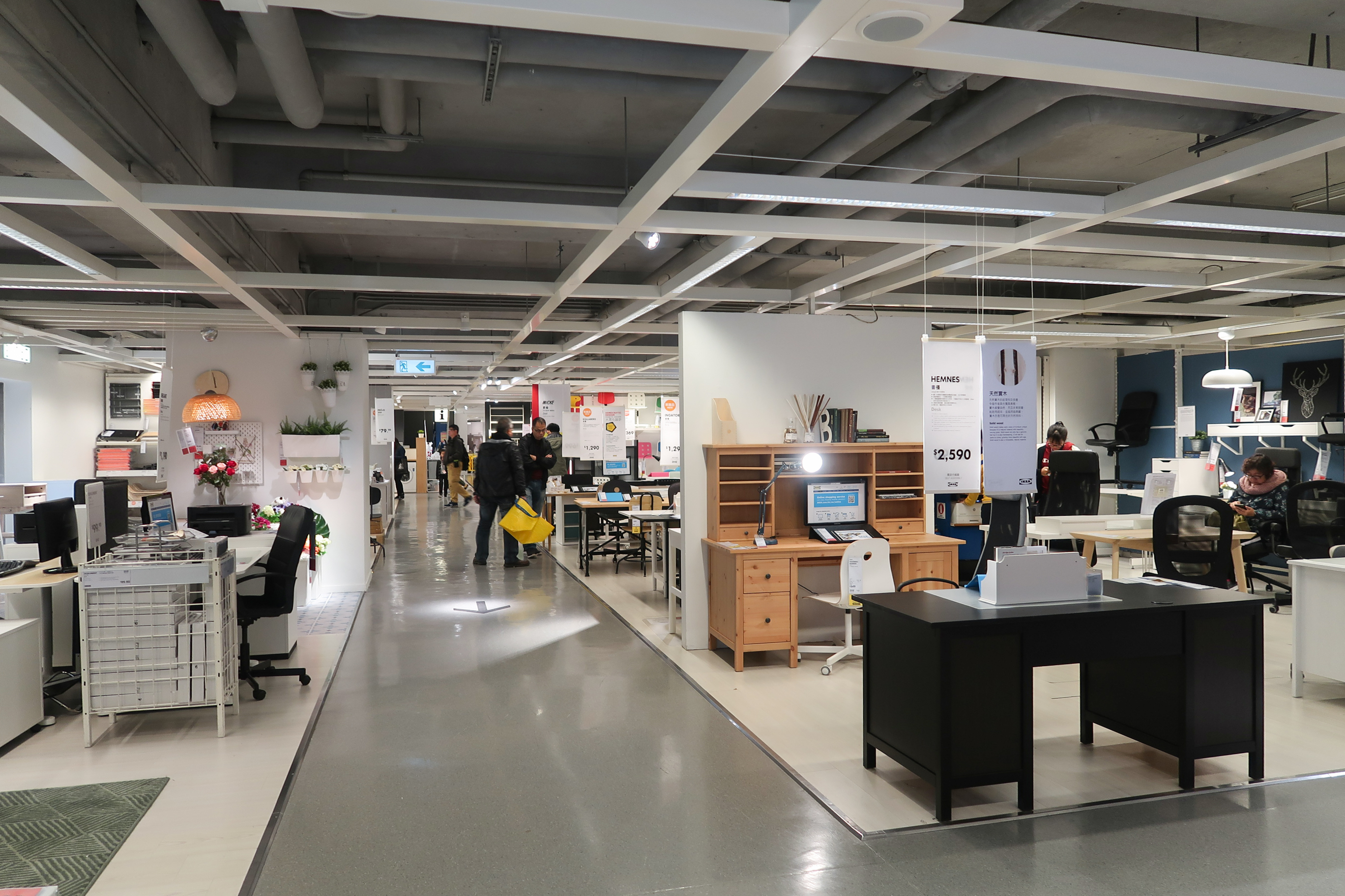 IKEA furniture display in HK Homesquare